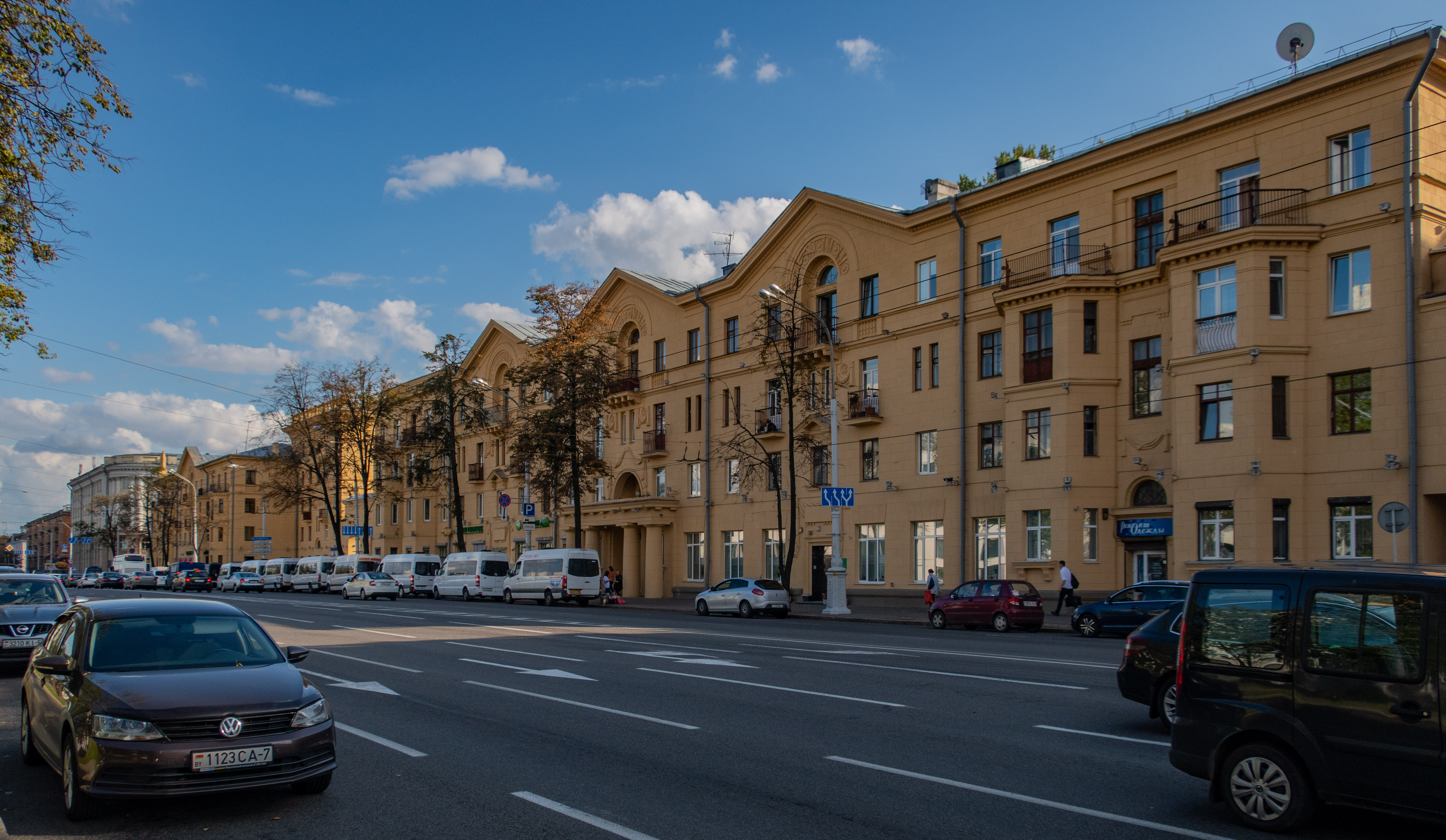 Sviardlova street. Minsk, Belarus